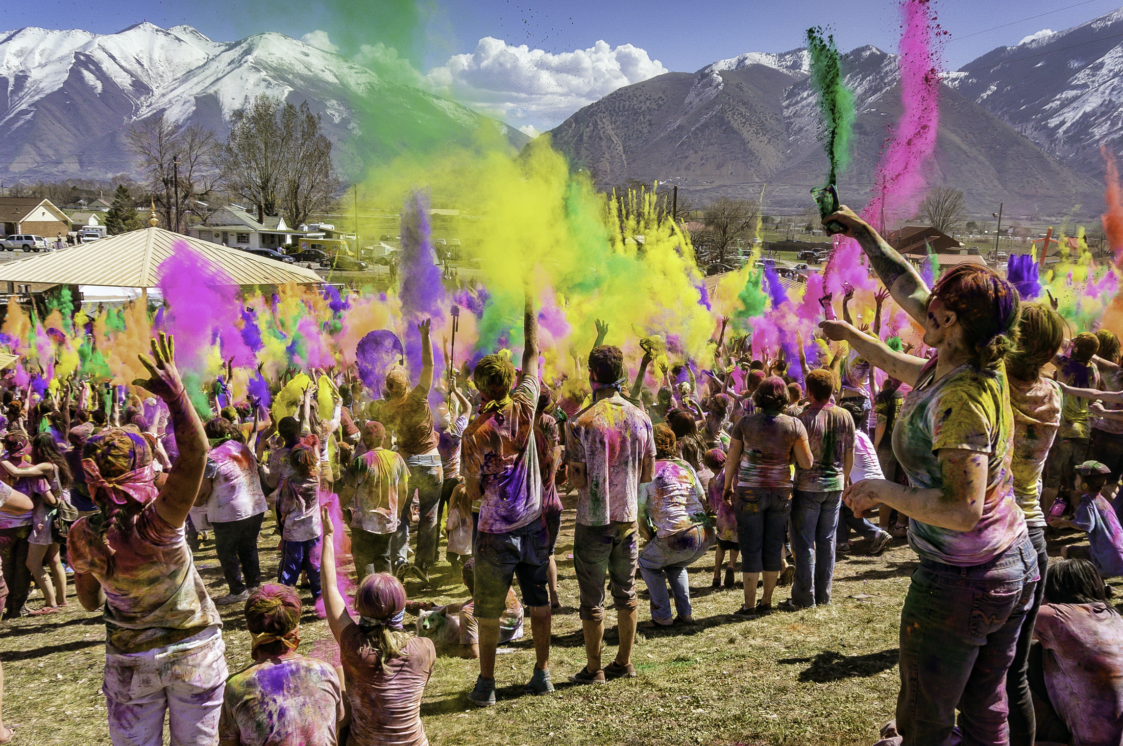 Over 80,000 people participated in 2013 Utah, United States